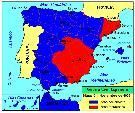 Spanish Civil War situation of the fronts in November of 1938.